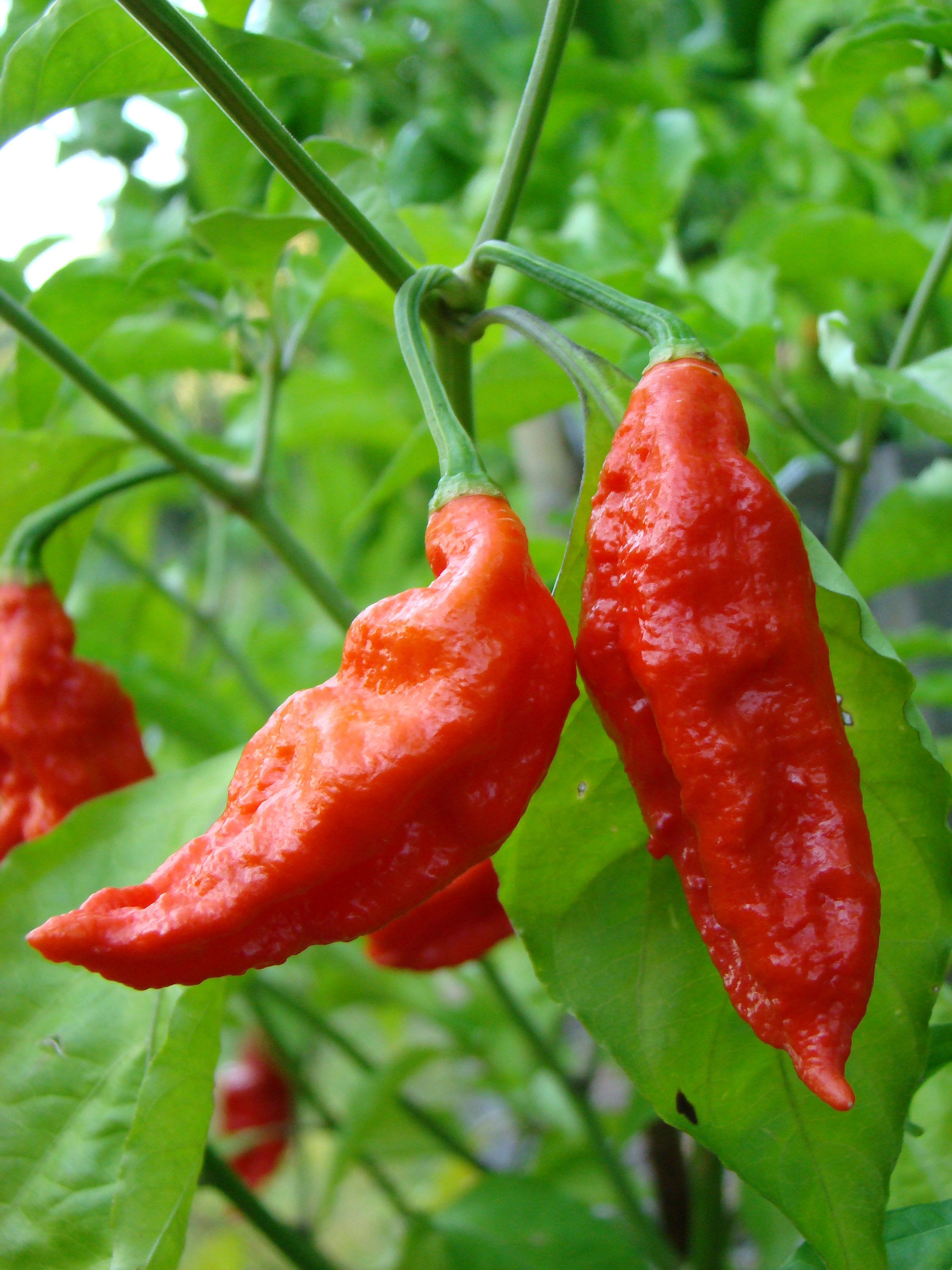 Peppers were grown in 3-gallon pots in the Ghosh Grove, Rockledge, Florida, USA from seeds bought from the Chili Pepper Institute, New Mexico State University, Las Cruces, New Mexico, USA.